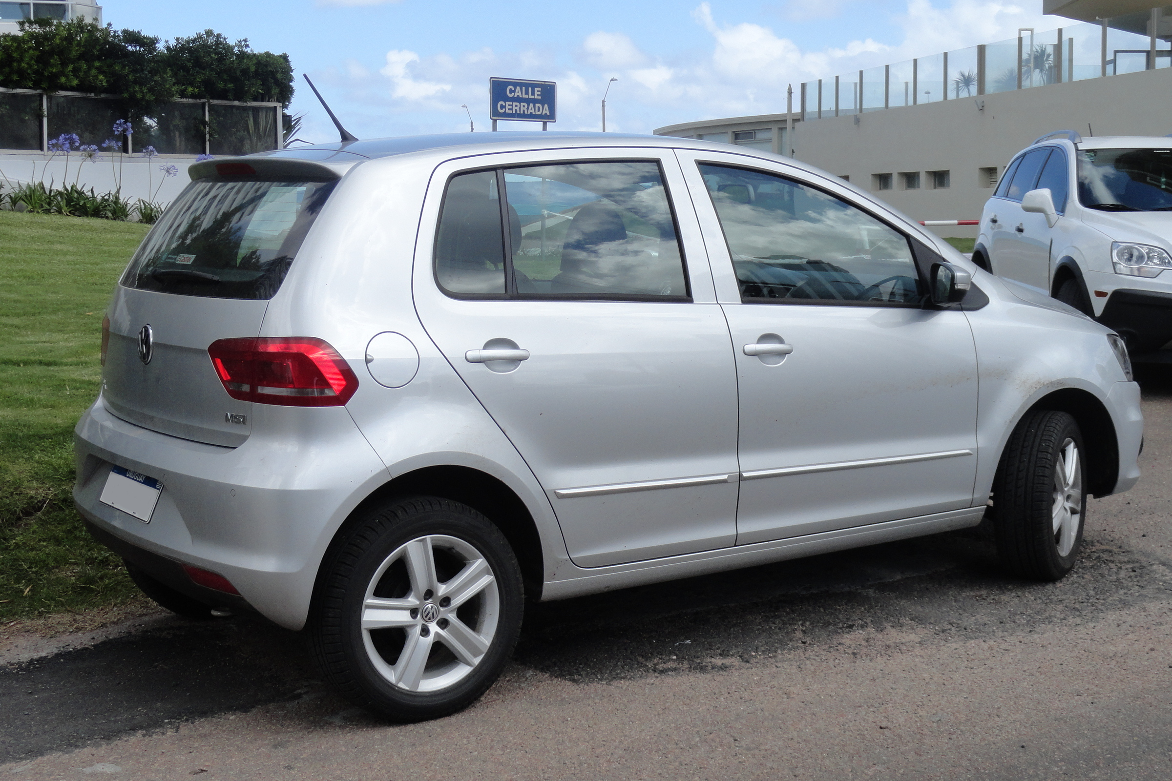 Volkswagen Fox 2015 photographed in Punta del Este